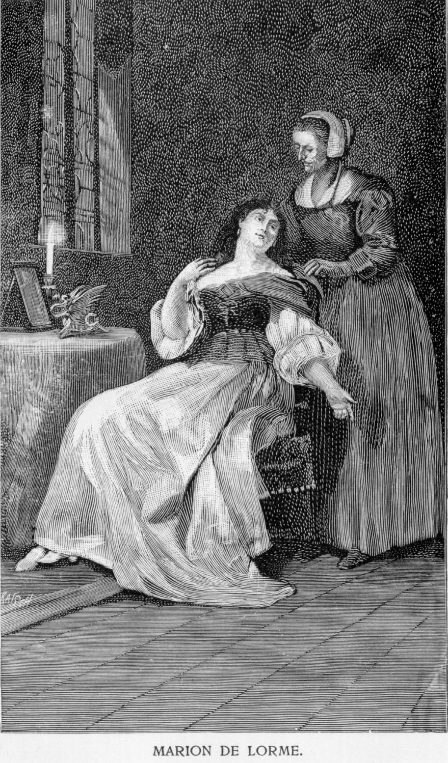 Wood engraving of Marion de Lorme and Dame Rose from Victor Hugo play.